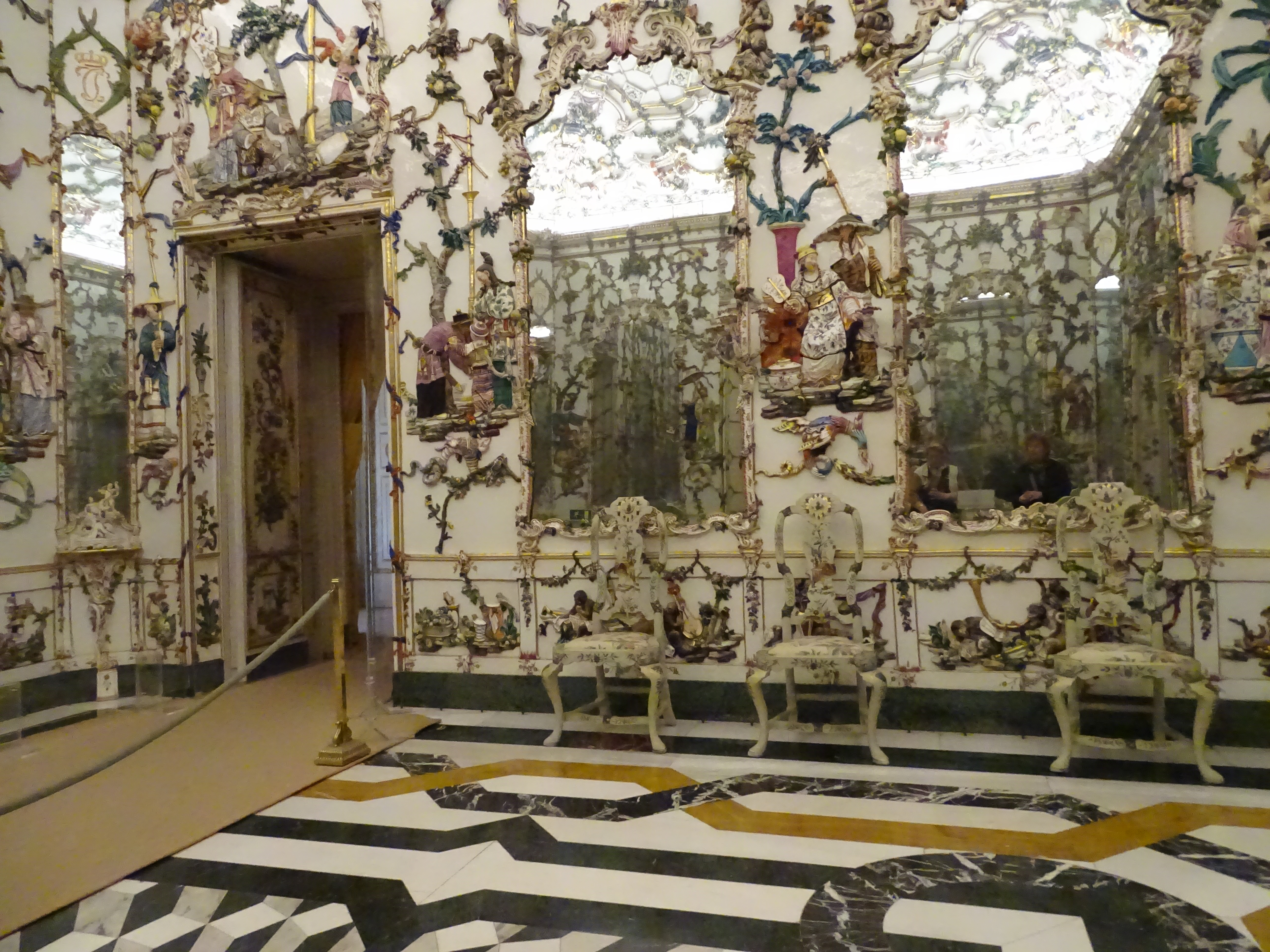 Palacio Real de Aranjuez - Sala de la Porcelana